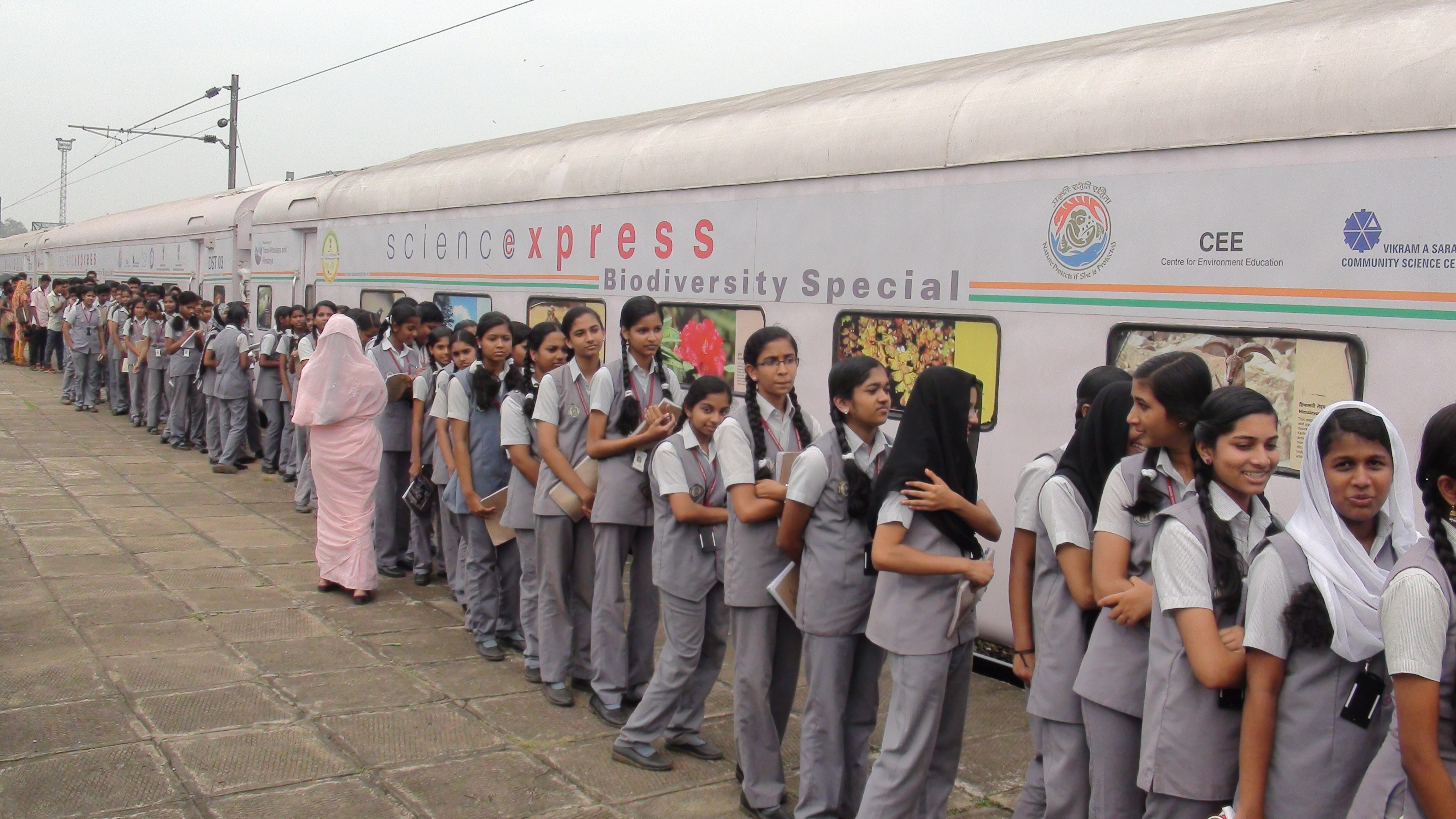 science express bio diversity special